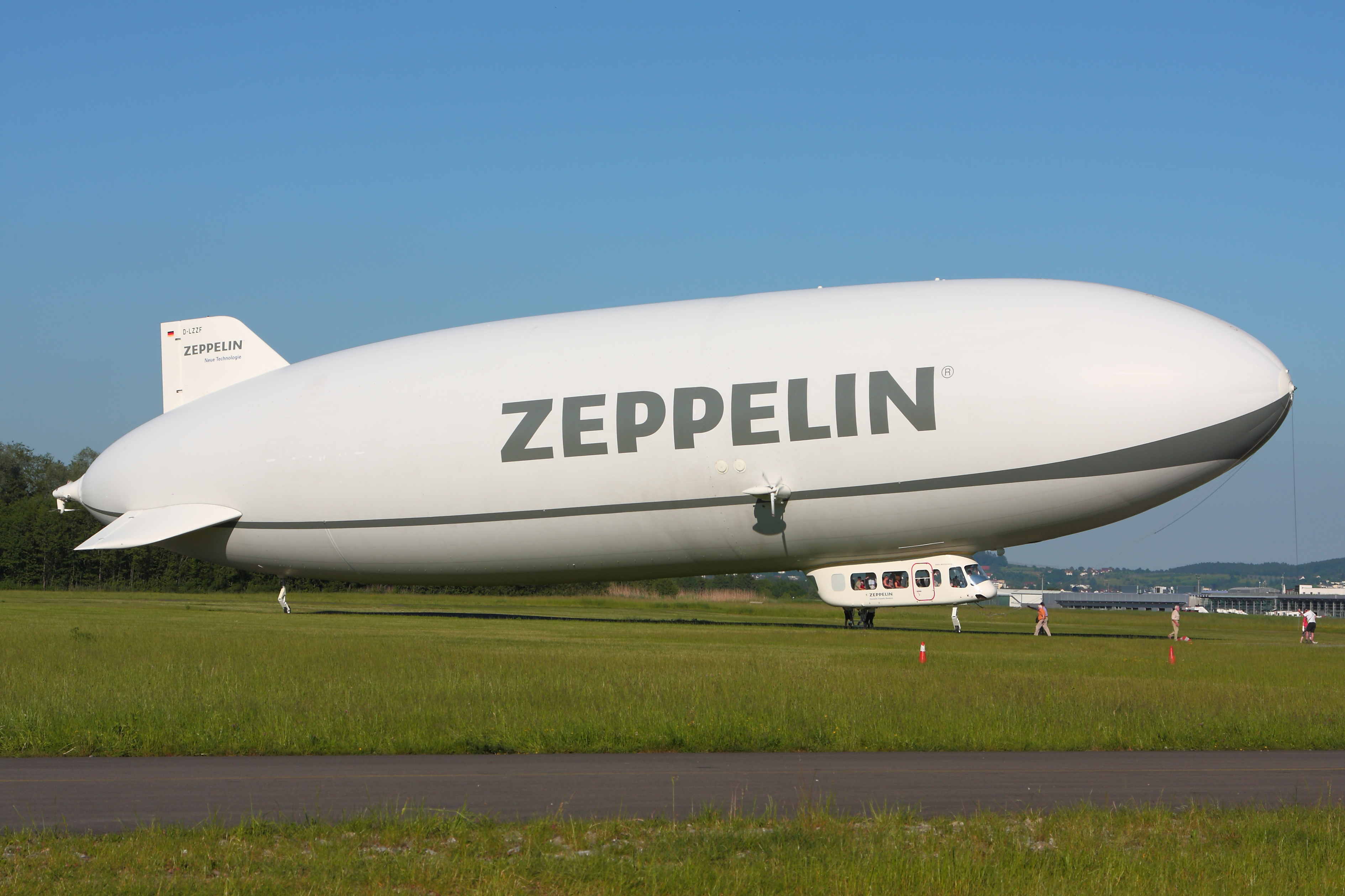 Zeppelin NT